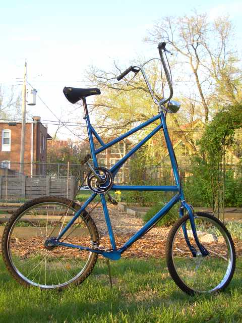 A home-made tall bicycle constructed from two bicycle frames, and scavenged parts from 9 other bicycles. It is easier to ride than it looks.